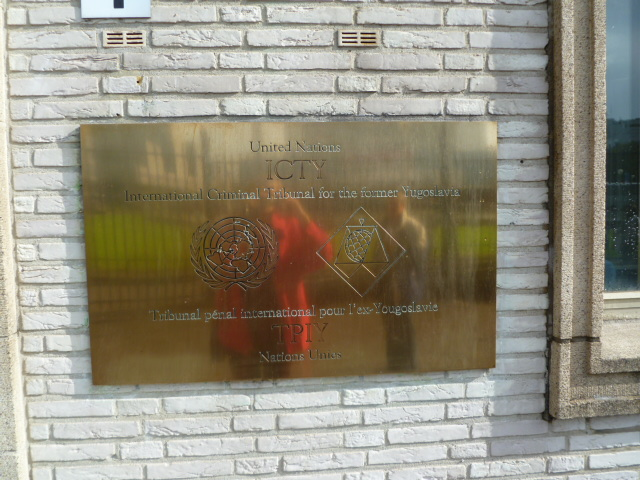 The Hague (the Netherlands) International Tribunal of the former Yugoslavia